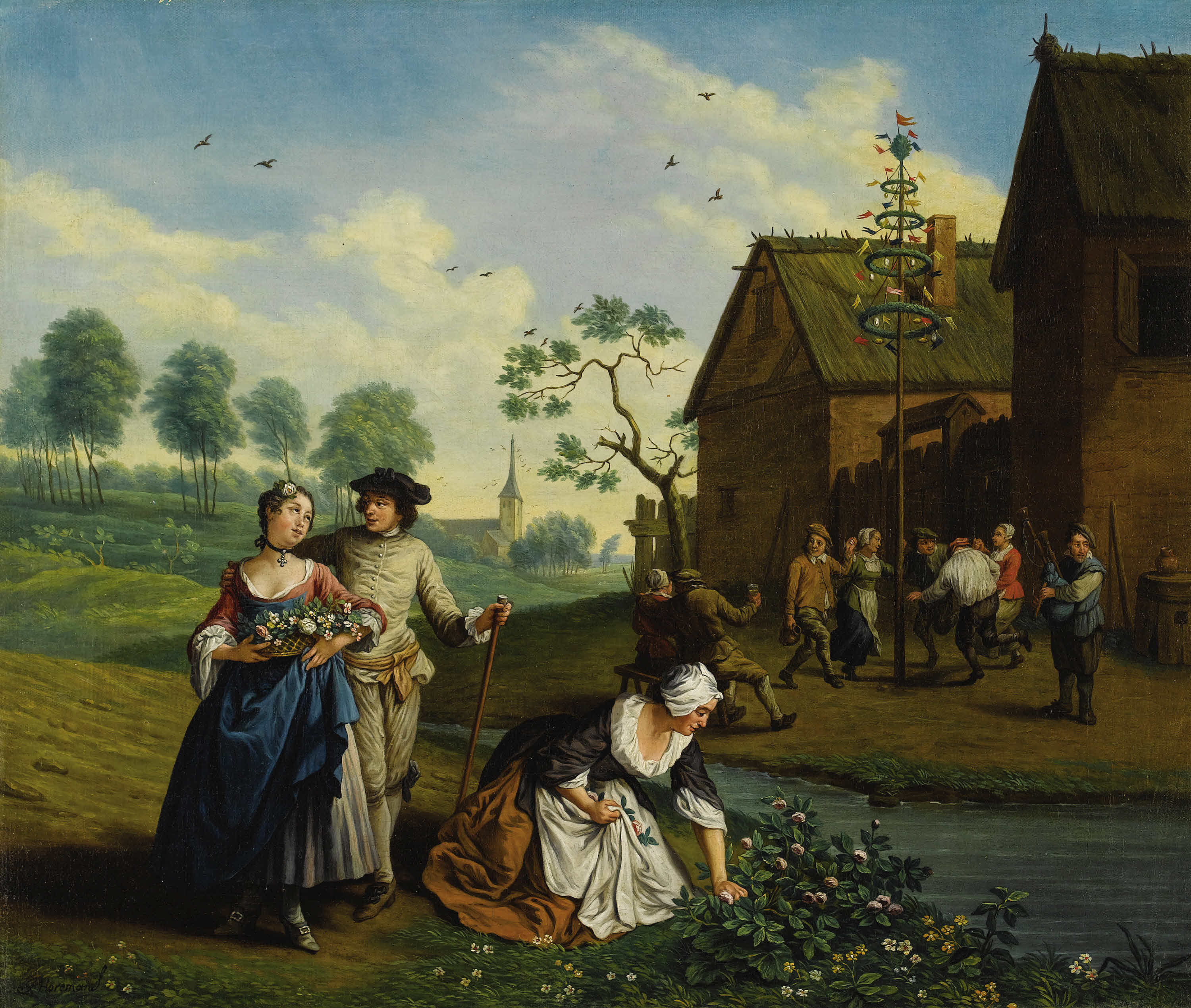 Part of a series: The Four Seasons